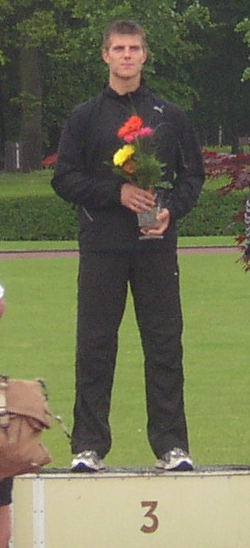 Athlete Marek Lukáš of the Czech Republic during victory ceremony in men's decathlon at 7th edition of the TNT Express Meeting (IAAF World Combined Events Challenge Meeting, Sletiště Stadium, Kladno, Czech Republic, 9 June 2013).